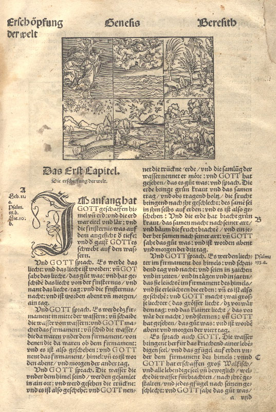 first page of the Genesis in Johannes Eck's catholic bible from 1537, the first translation of the full bible into Bavarian, three years after Martin Luther's translation into Middle German